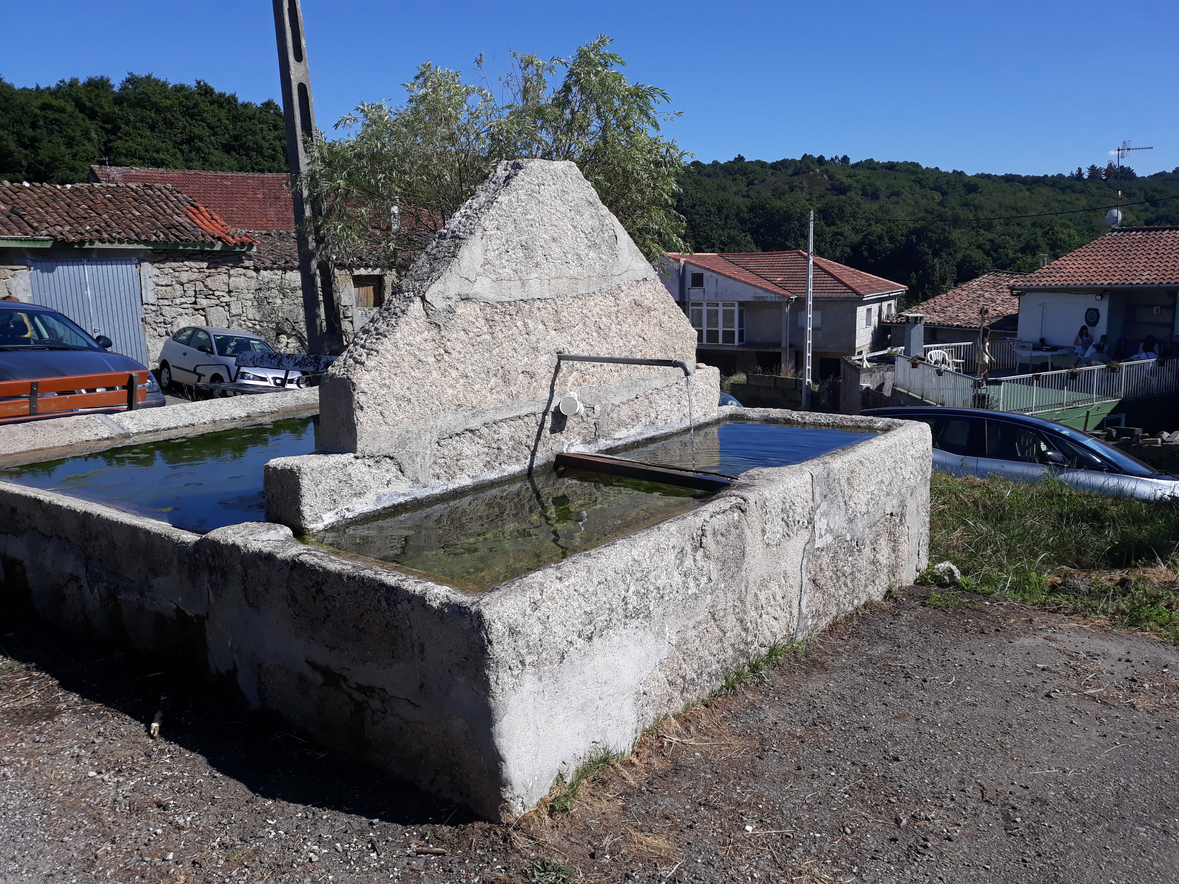 The hamlet of Quintela, Xunqueira de Ambía, Ourense province, Galicia, Spain